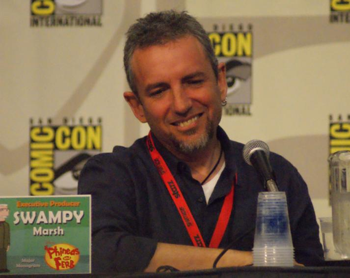 Jeff "Swampy" Marsh.